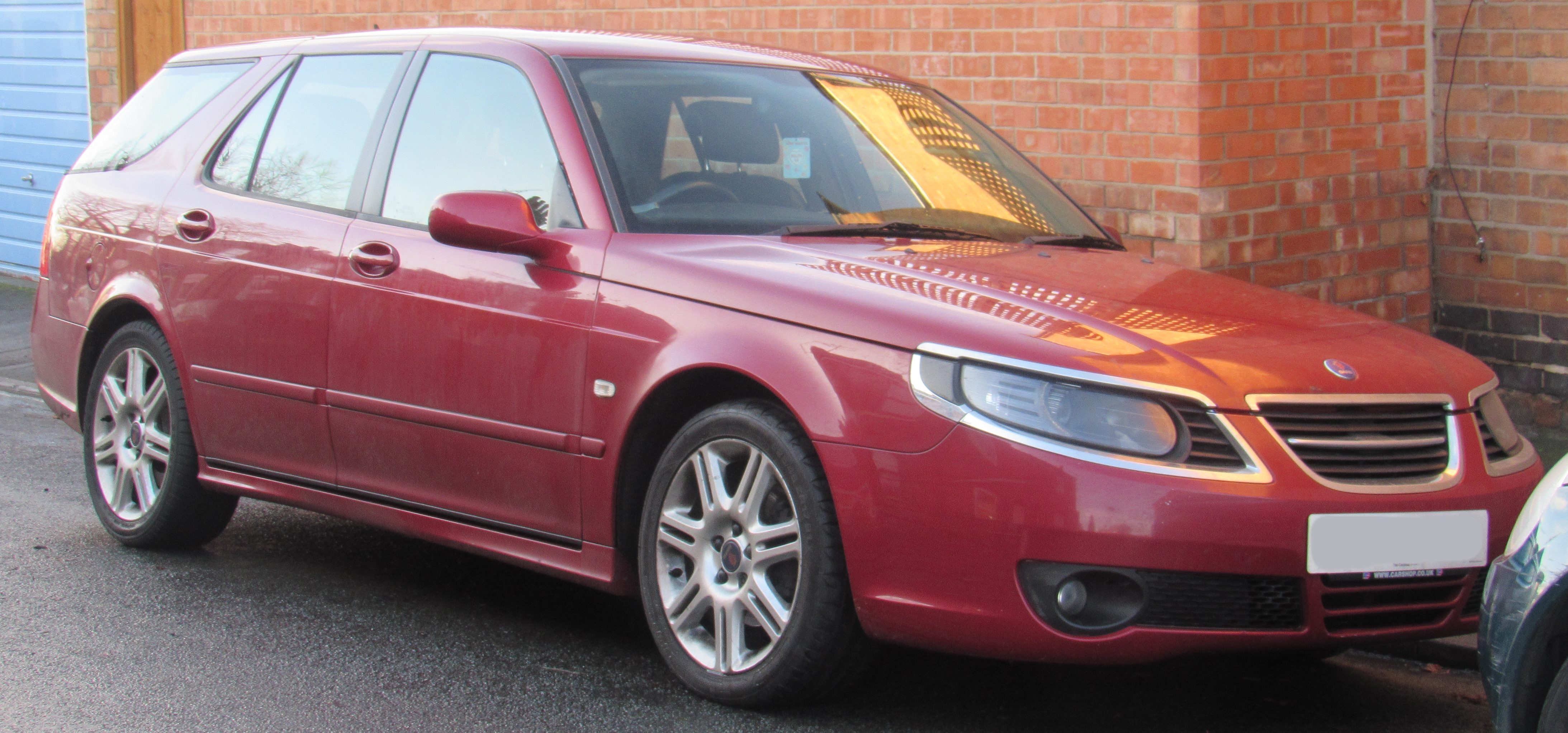 2006 Saab 9-5 Vector S-A Estate 2.0 Front Taken in Warwick